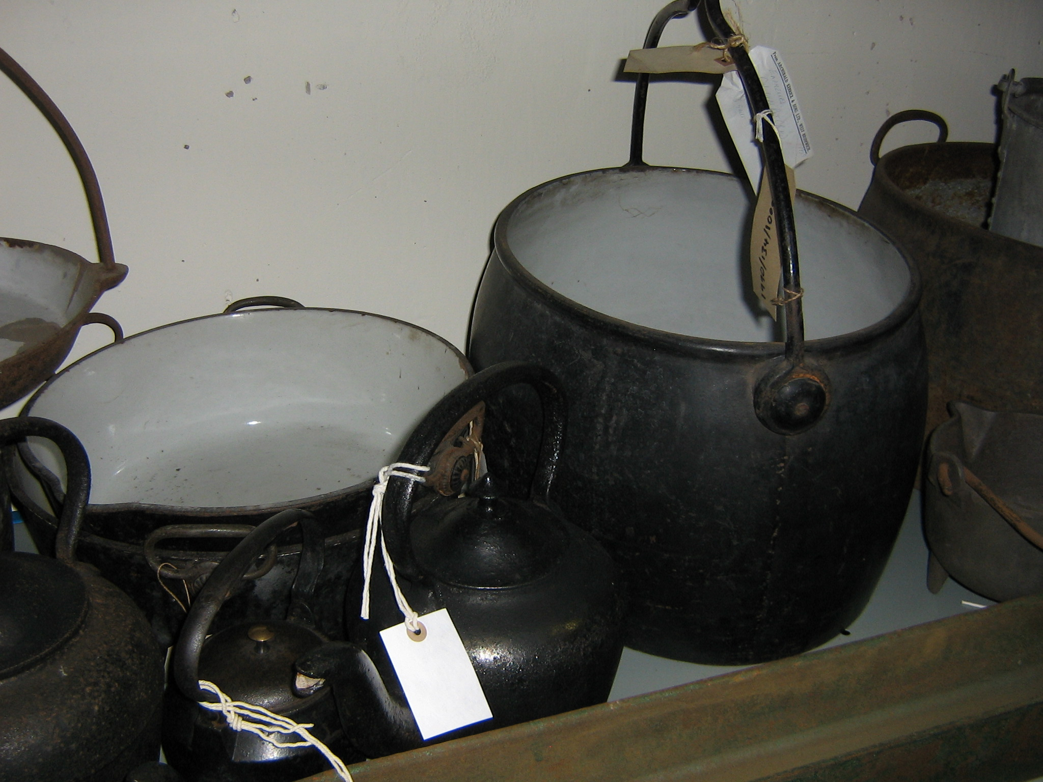 Black Country Living Museum, Wikimedia Backstage Pass day. Illustration of the origin of "Pot calling the kettle black"